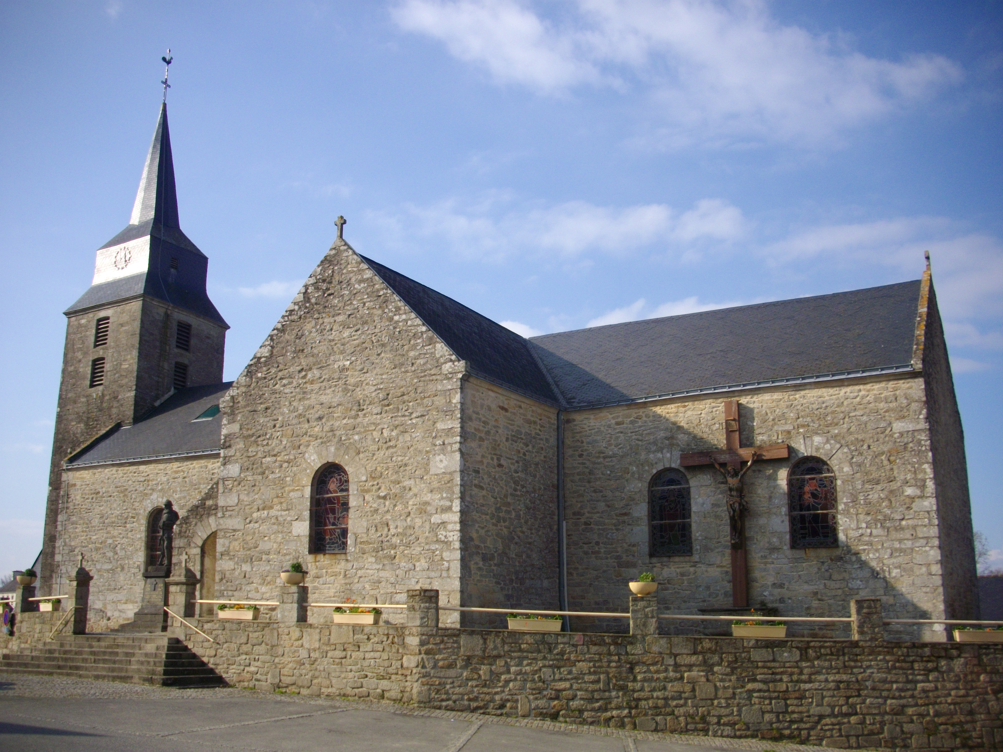 Saint Peter church in Monterblanc (Morbihan, France)